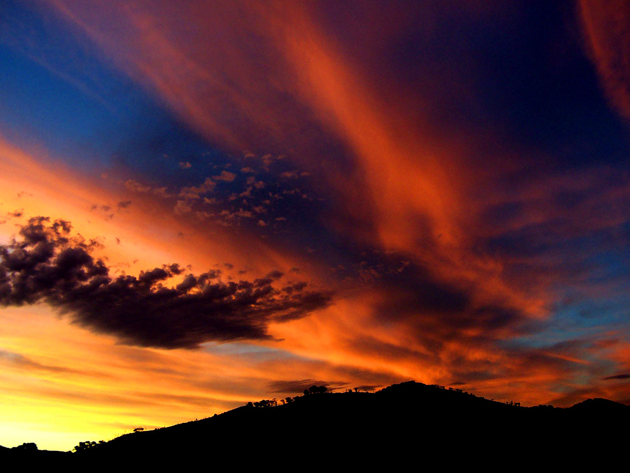 A dramatic sunset. Keywords: Sunset, Unidentified clouds, Sky.